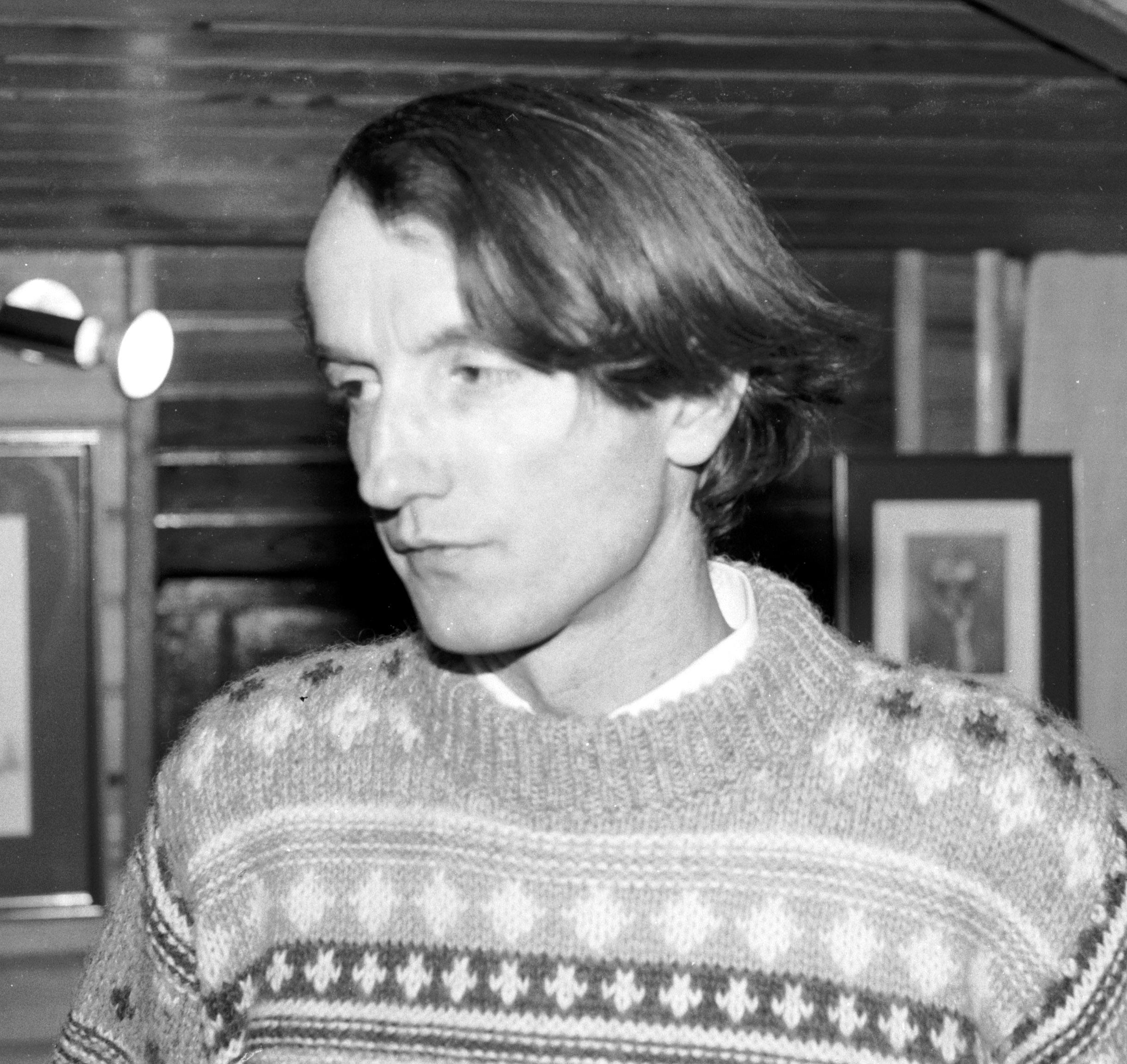 French writer Patrick Grainville.